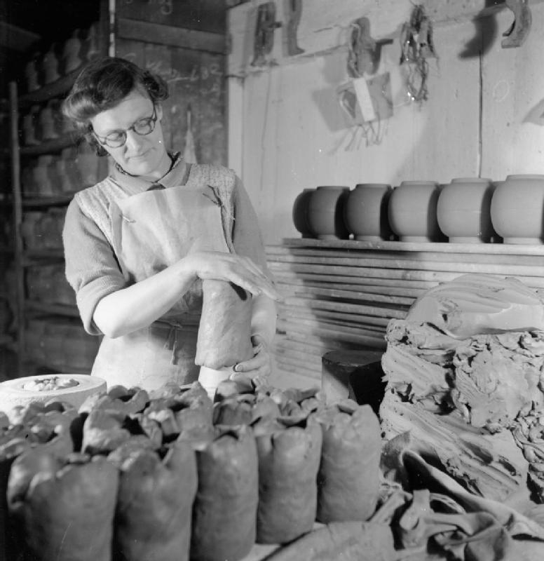 Pottery in the Making- the work of J and G Meakin Pottery, Hanley, Stoke-on-trent, Staffordshire, England, 1942 Mrs Hilda Adams makes the rough shape for tea pot moulds from local red clay at a pottery, somewhere in Britain.